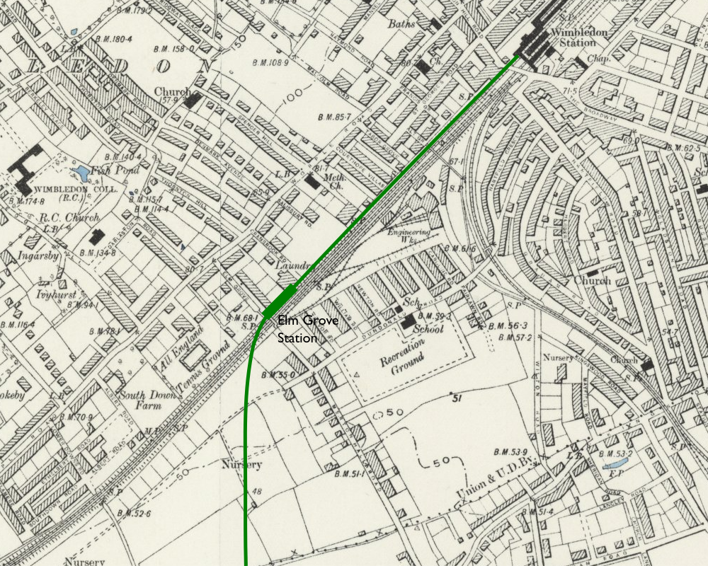 Proposed location of Wimbledon and Sutton Railway's unbuilt Elm Grove station and route of line superimposed on an Ordnance Survey Map.